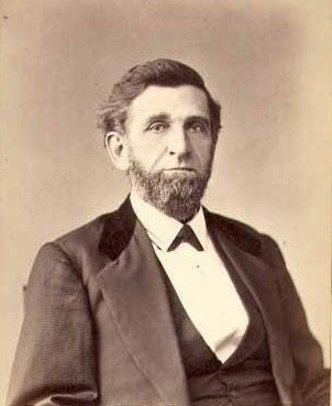 Abram Comingo, Missouri Congressman